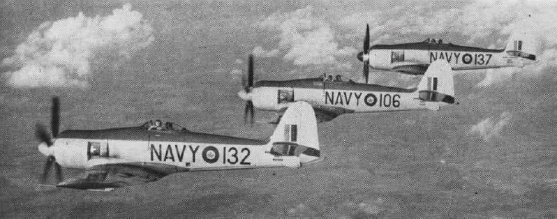 Three Hawker Sea Fury FB.11 fighters of the Royal Canadian Navy. A total of 74 Sea Fury FB.11s served with the Royal Canadian Navy between 1948 and 1956. All flew from the aircraft carrier HMCS Magnificent (CVL 21) in No. 871 squadron.